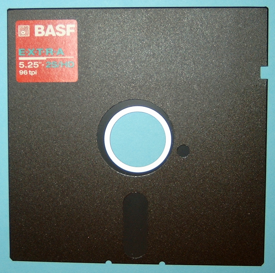 5,25" HD floppy disk